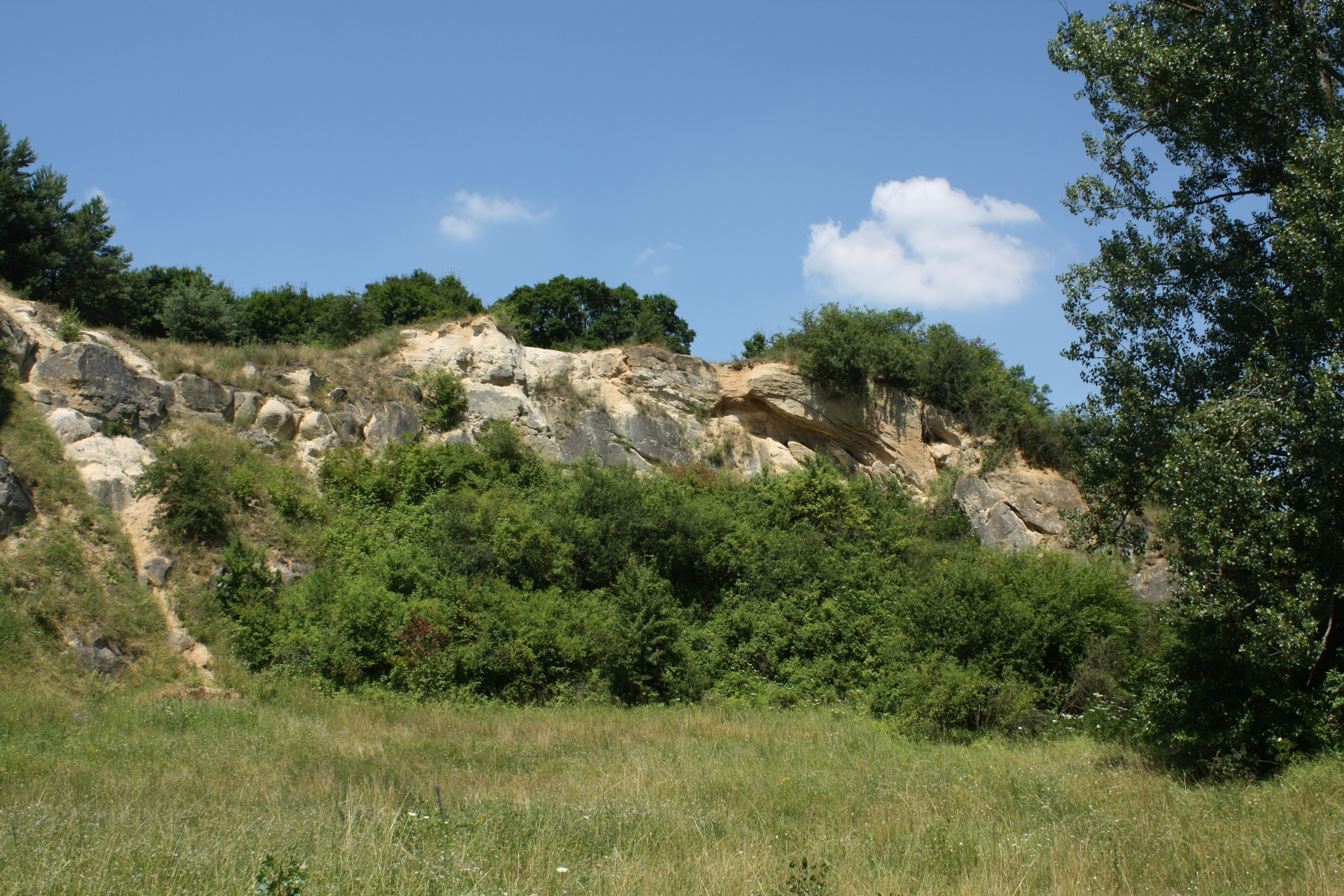 Ježovský lom natural monument, Uherské Hradiště District, Czech Republic